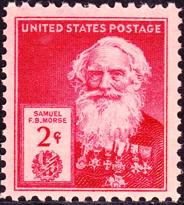 Samuel_FB_Morse_1940_Issue-2c.jpg